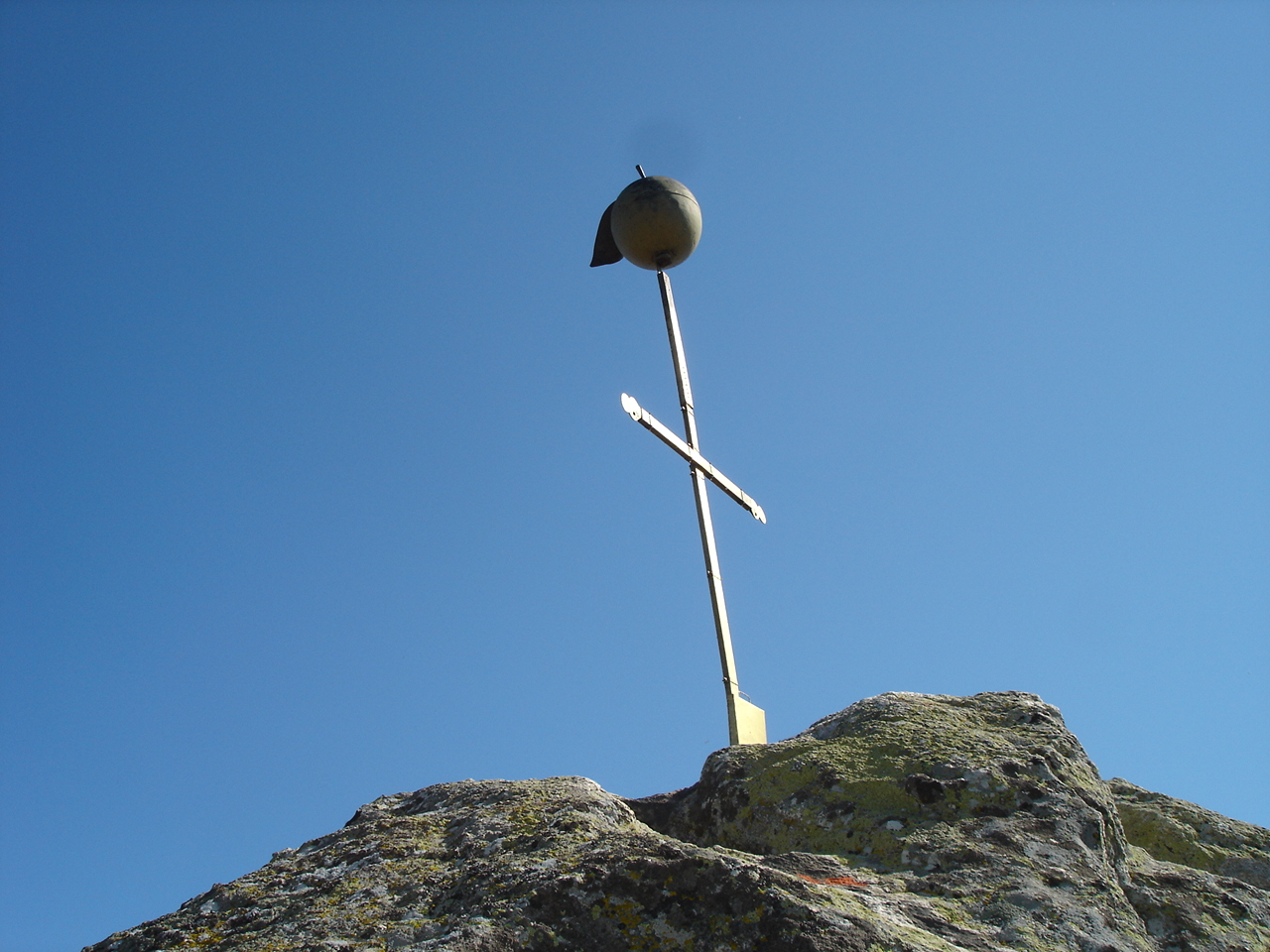 The golden apple on Zlatovrv peak, Macedonia